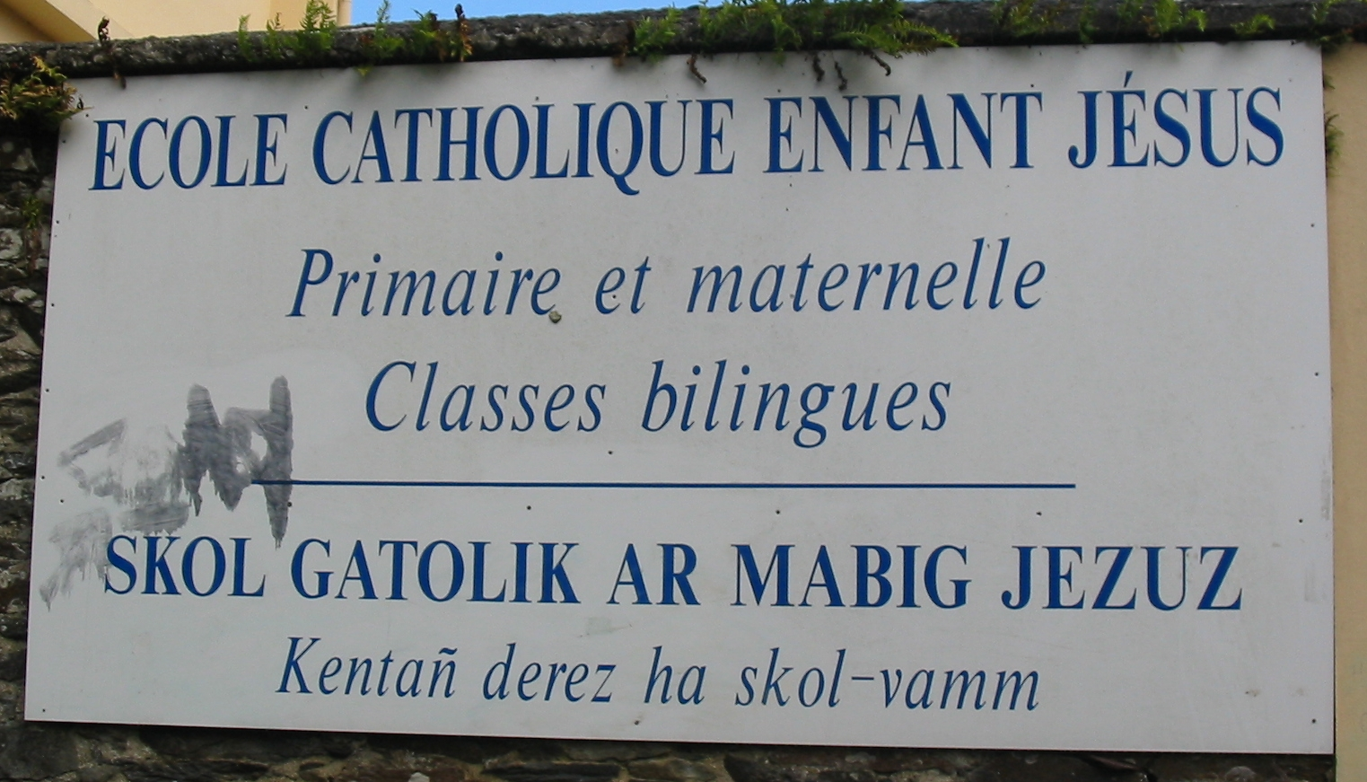 Bilingual sign in Breton and French of Catholic school in Carhaix, Brittany